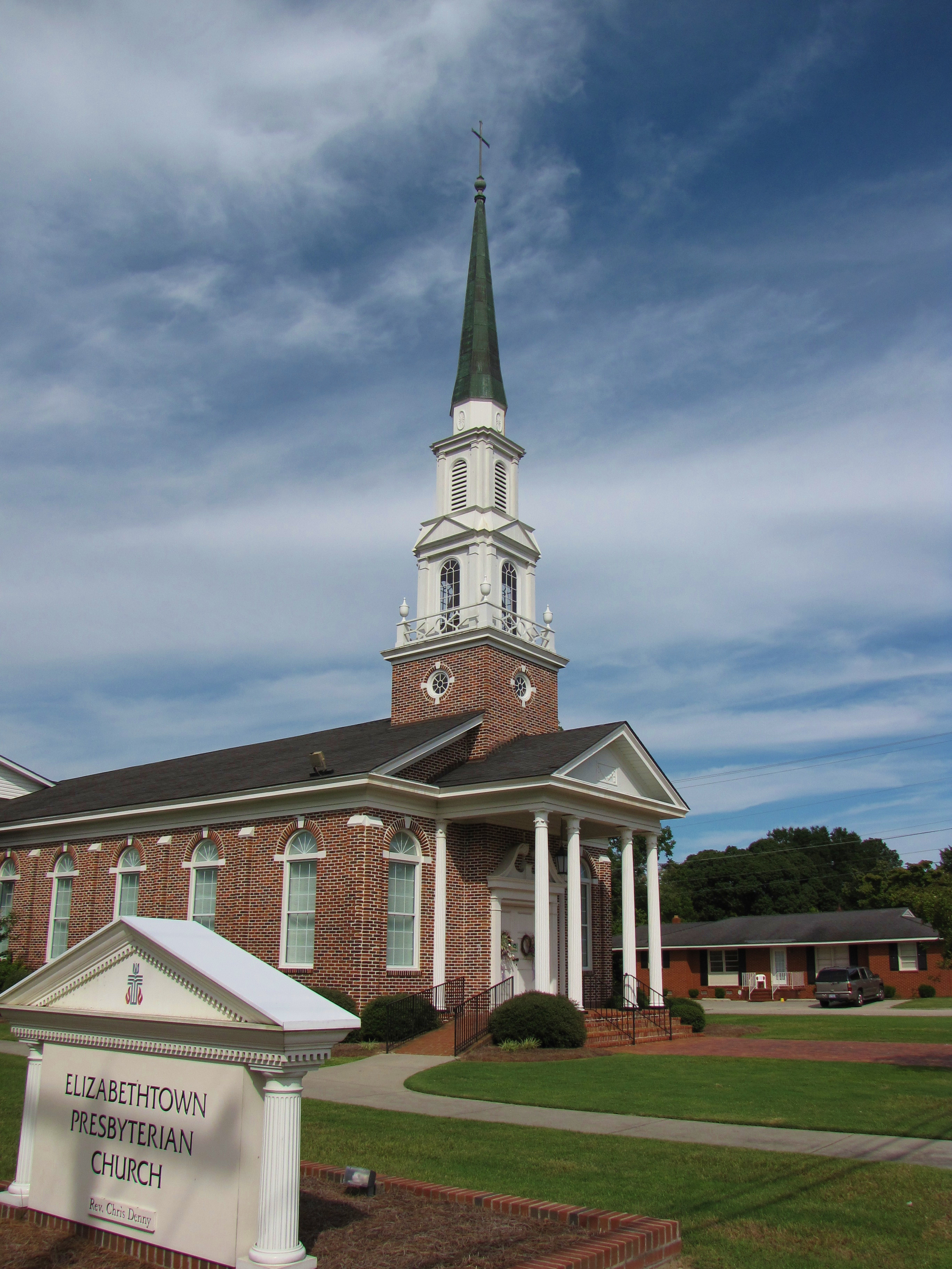 Elizabethtown Presbyterian Church, Elizabethtown, North Carolina